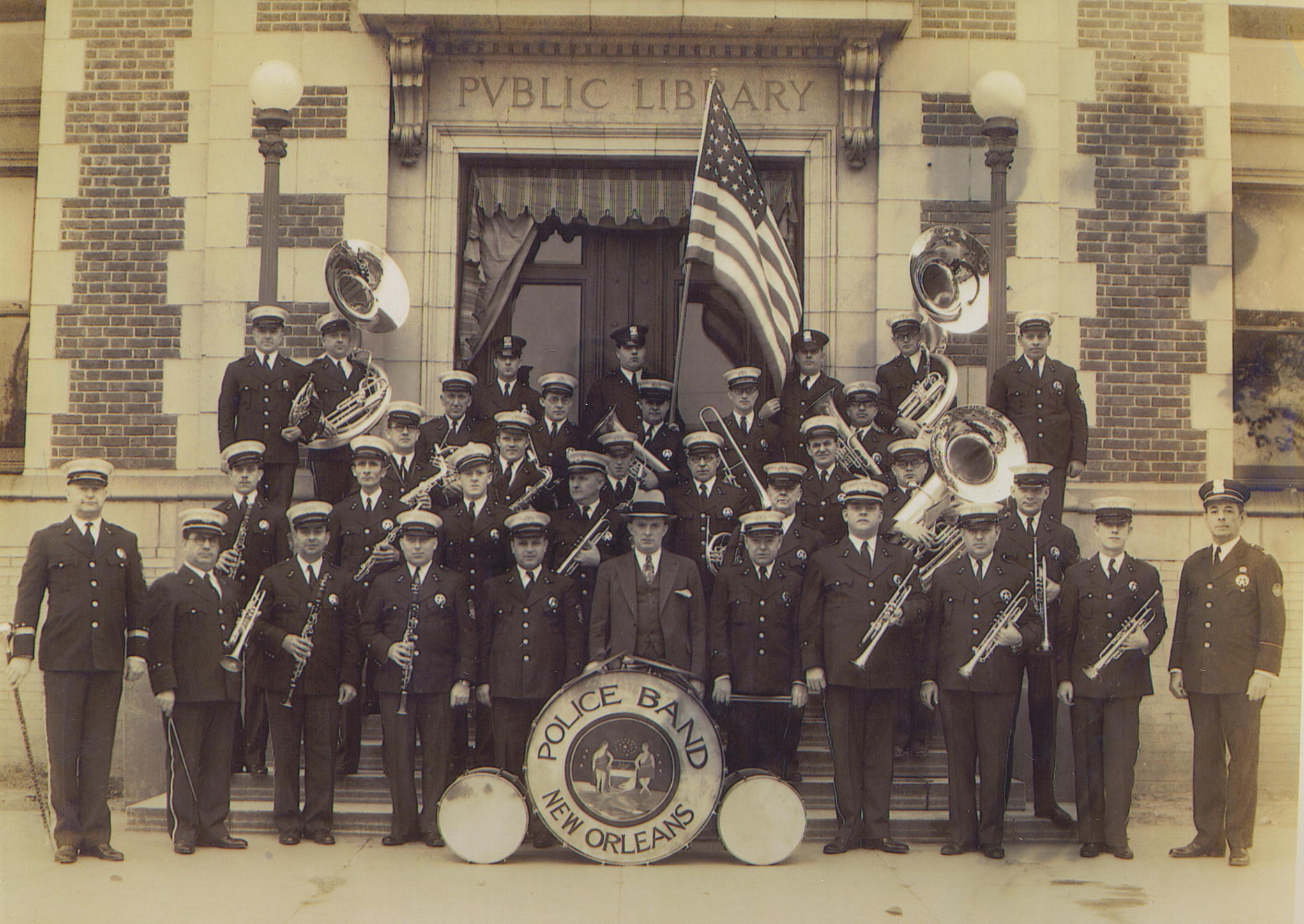 New Orleans Police band in front of the branch library on Napoleon Avenue. Officer Alcide Nunez, clarinet soloist, is in front row, 3rd from left. Courtesy Eugene Nunez collection.